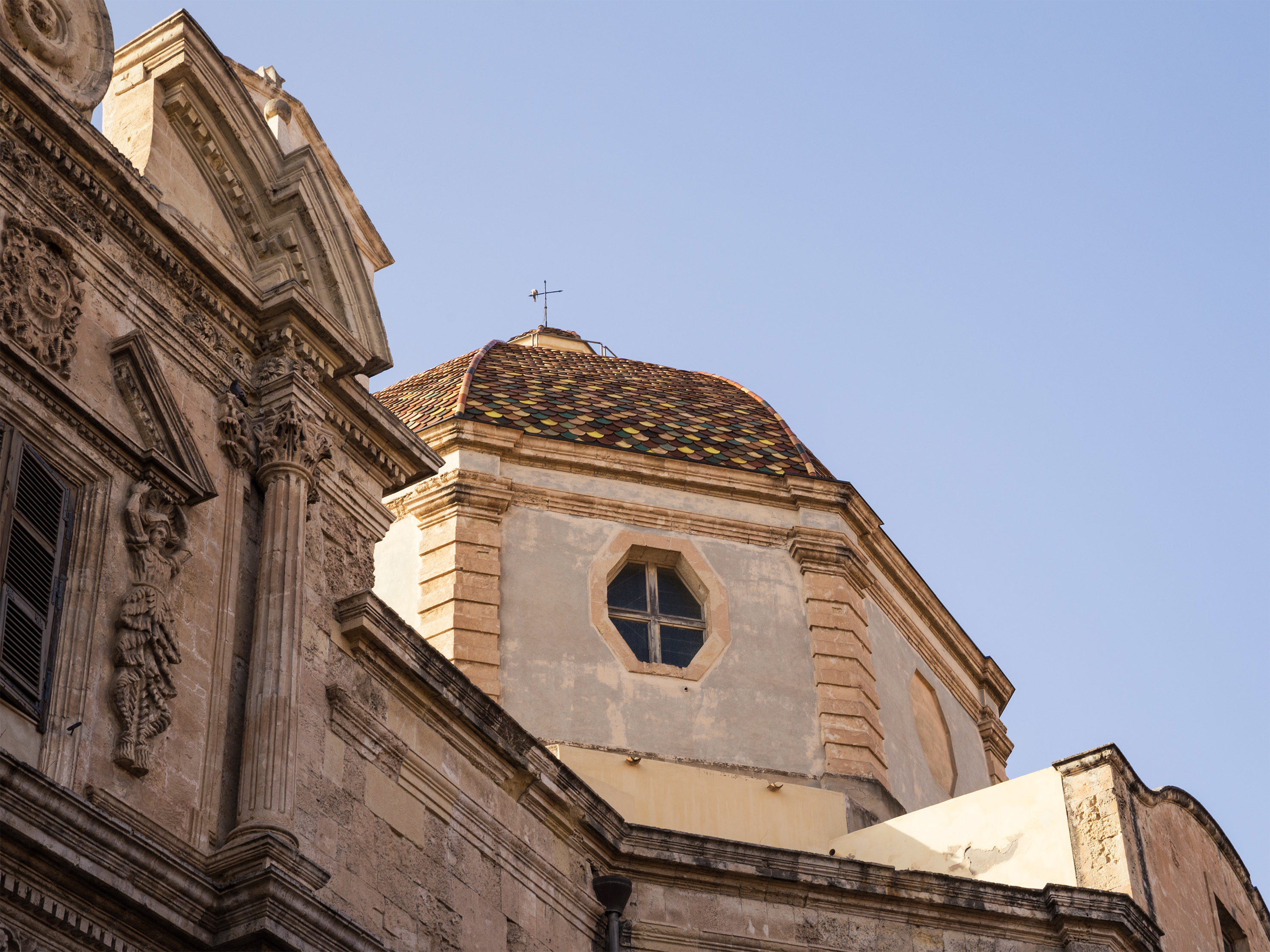 Cagliari, Chiesa di San Michele, Detail